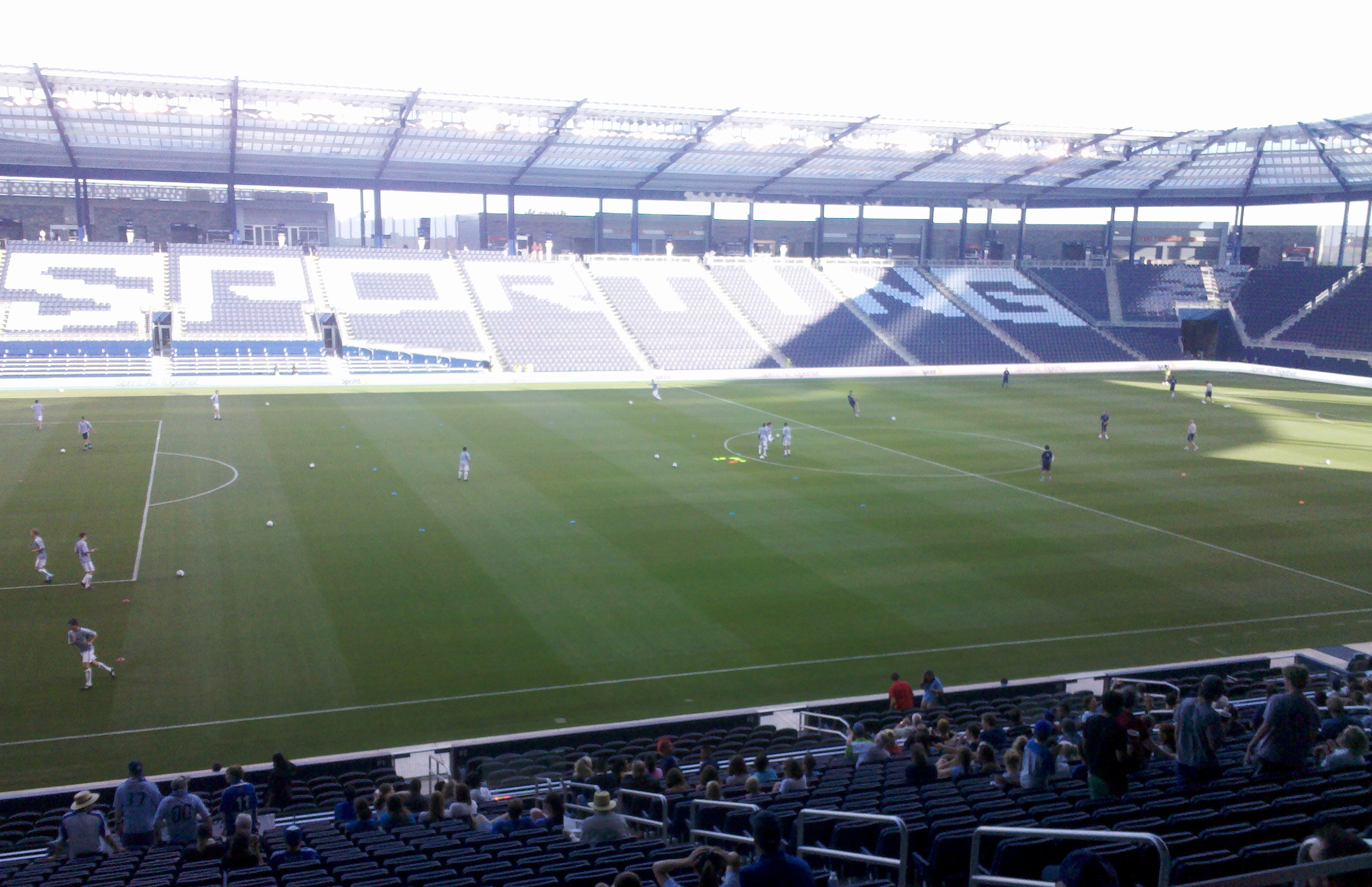 Stadium during warmups. Shows interior of Livestrong Park.